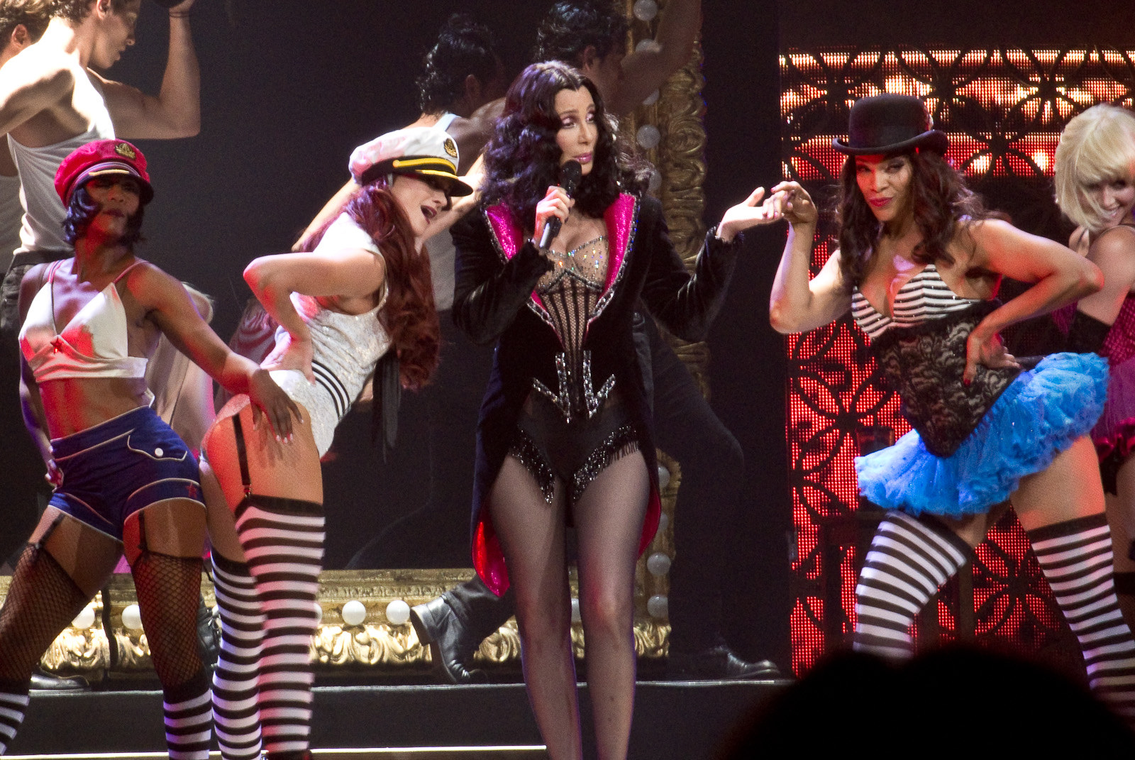 Cher performing live in concert, 2014.